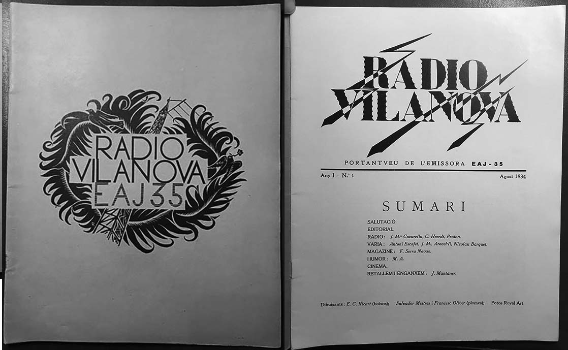 First issue Radio Vilanova magazine